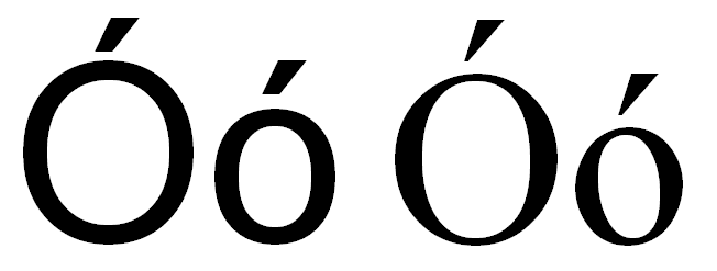 Latin_letter_Óó.